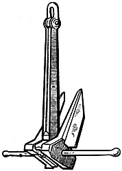 Danforth anchor